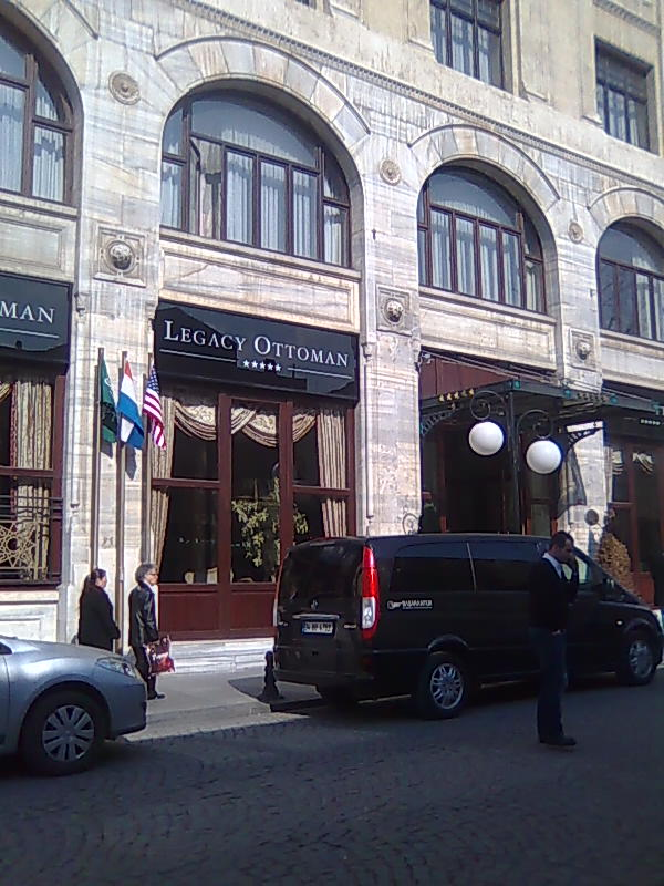 Entrance of Legacy Ottoman (formerly Istanbul 4th Vakıf Han)